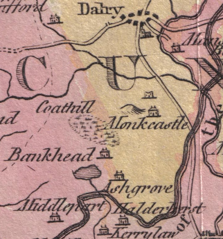 Map showing Ashgrove and Ashgrove Loch, Kilwinning, North Ayrshire, Scotland.